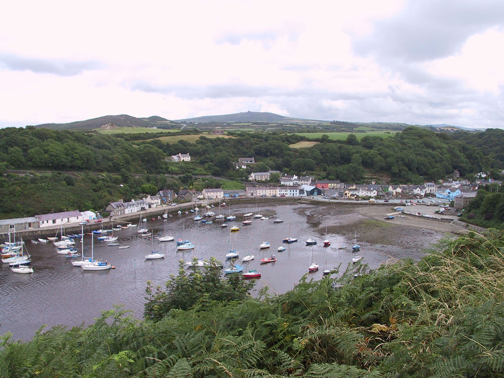 Fishguard Harbour (Summer 2003)